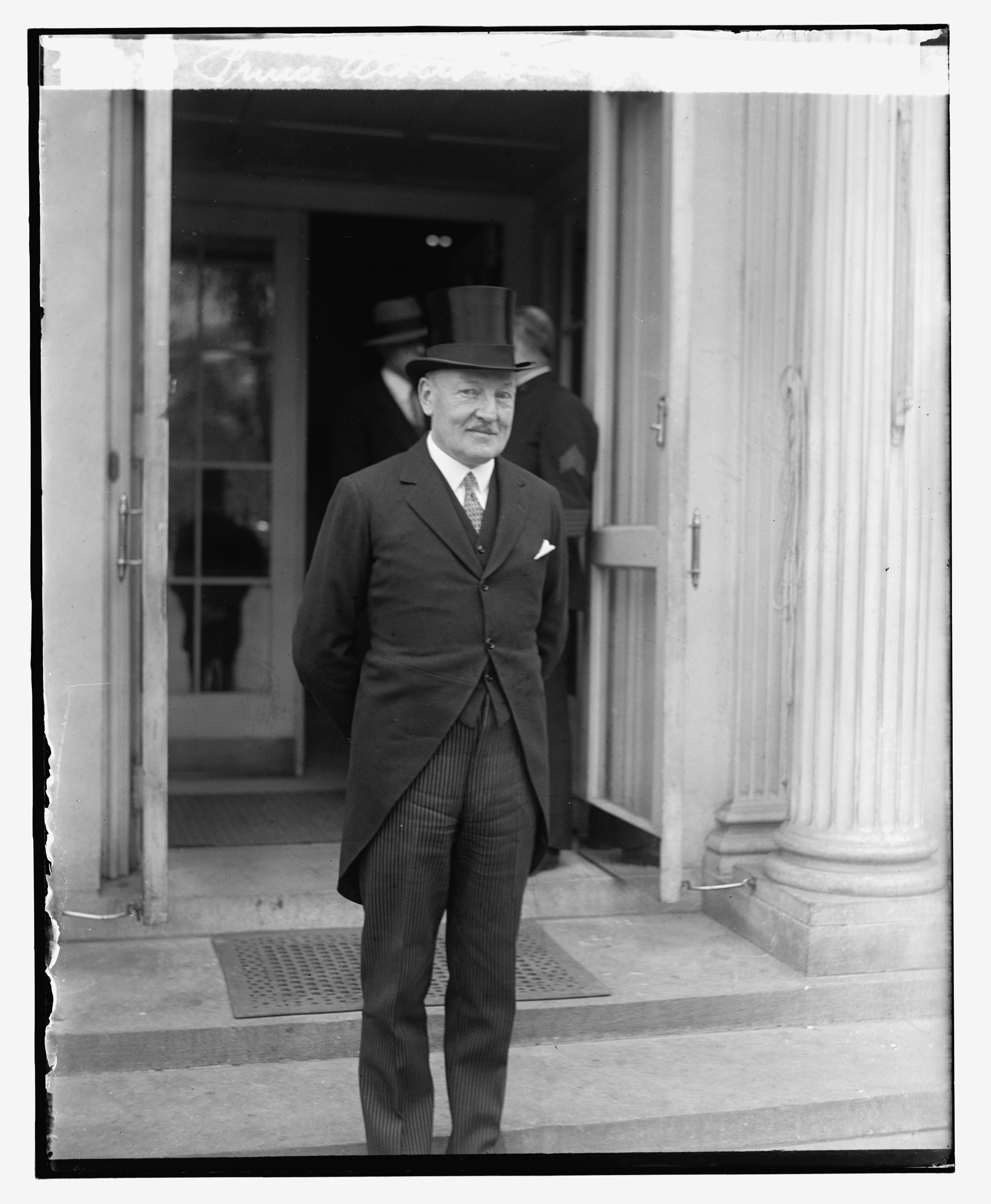 Title: Prince Albert de Ligne, 3/20/29 Abstract/medium: 1 negative : glass ; 4 x 5 in. or smaller